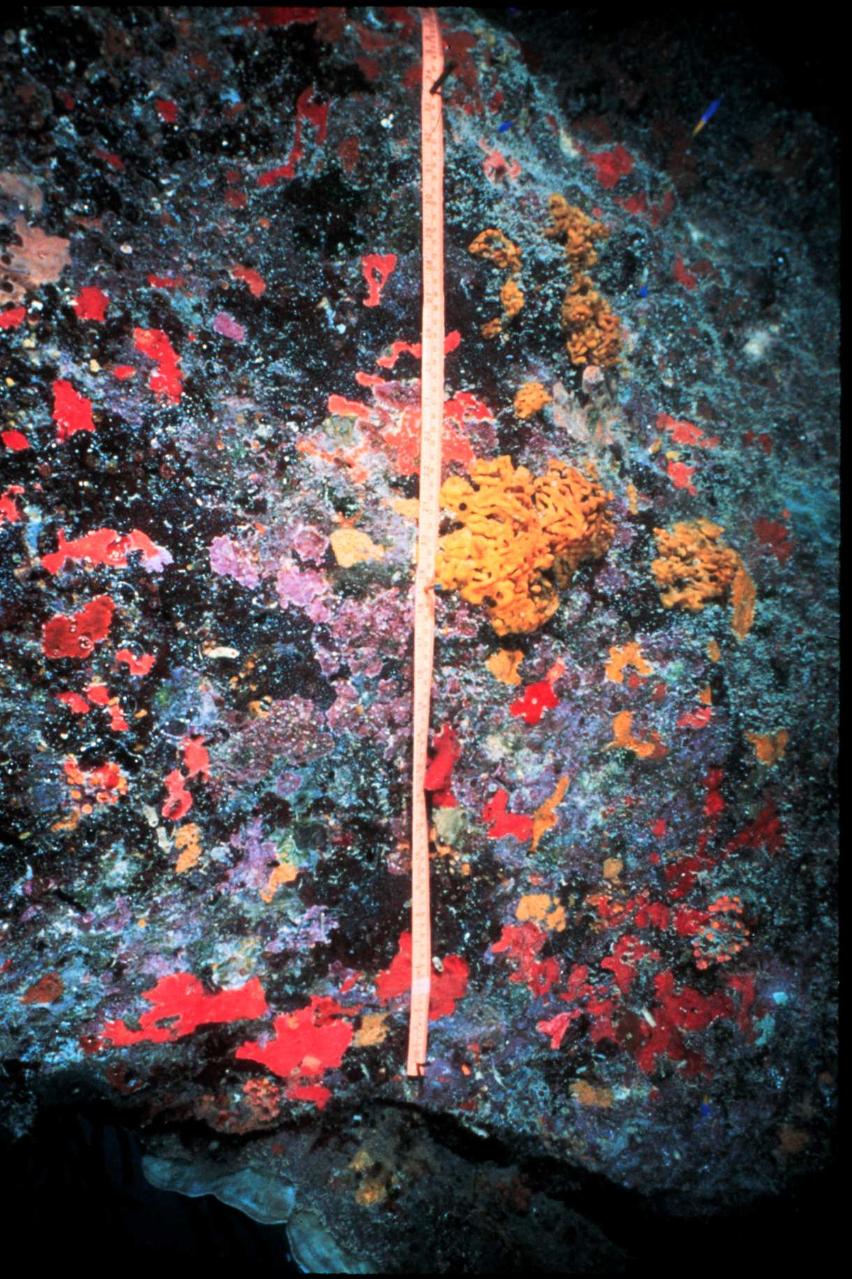 Demosponges and coralline algae on a permanent photo plot.